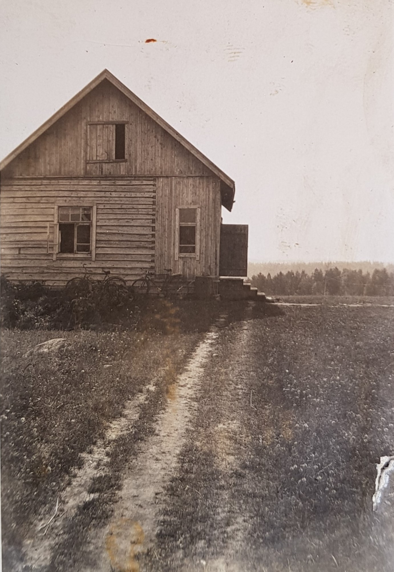 House in Pusoisvaara village in Karelia between 1941-1944